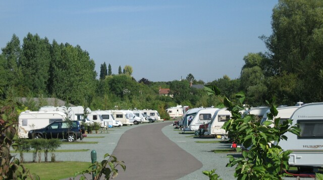 Caravan Site, Broadway. Touring caravan site near Broadway, looking north.